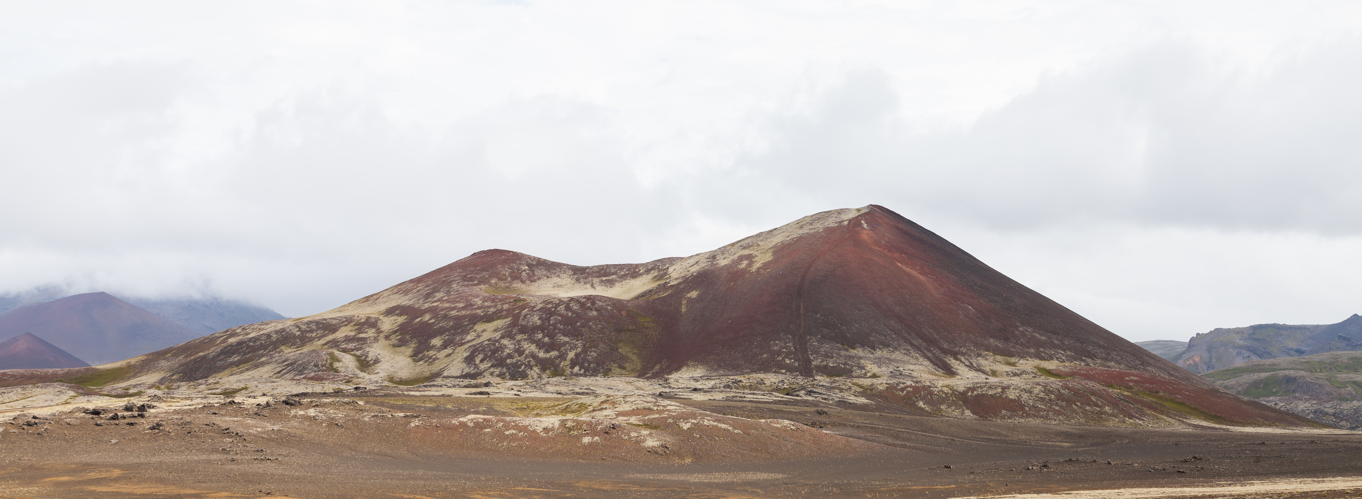 Grundarfjörður, Vesturland, Iceland